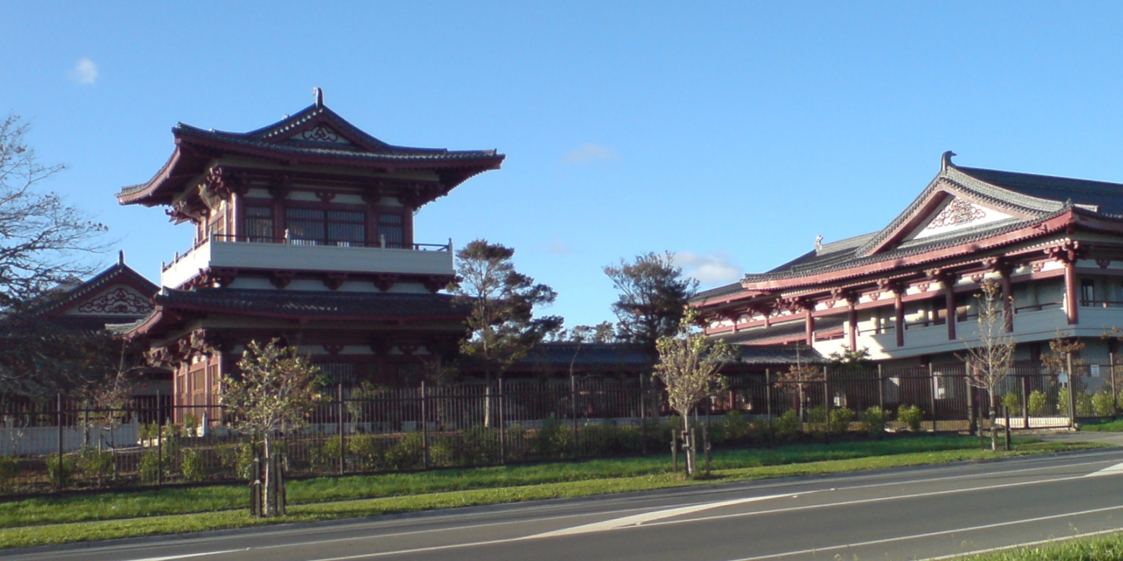 The Fo Guang Shan Temple, in Auckland, New Zealand, seen from Stancombe Road, looking northeast.